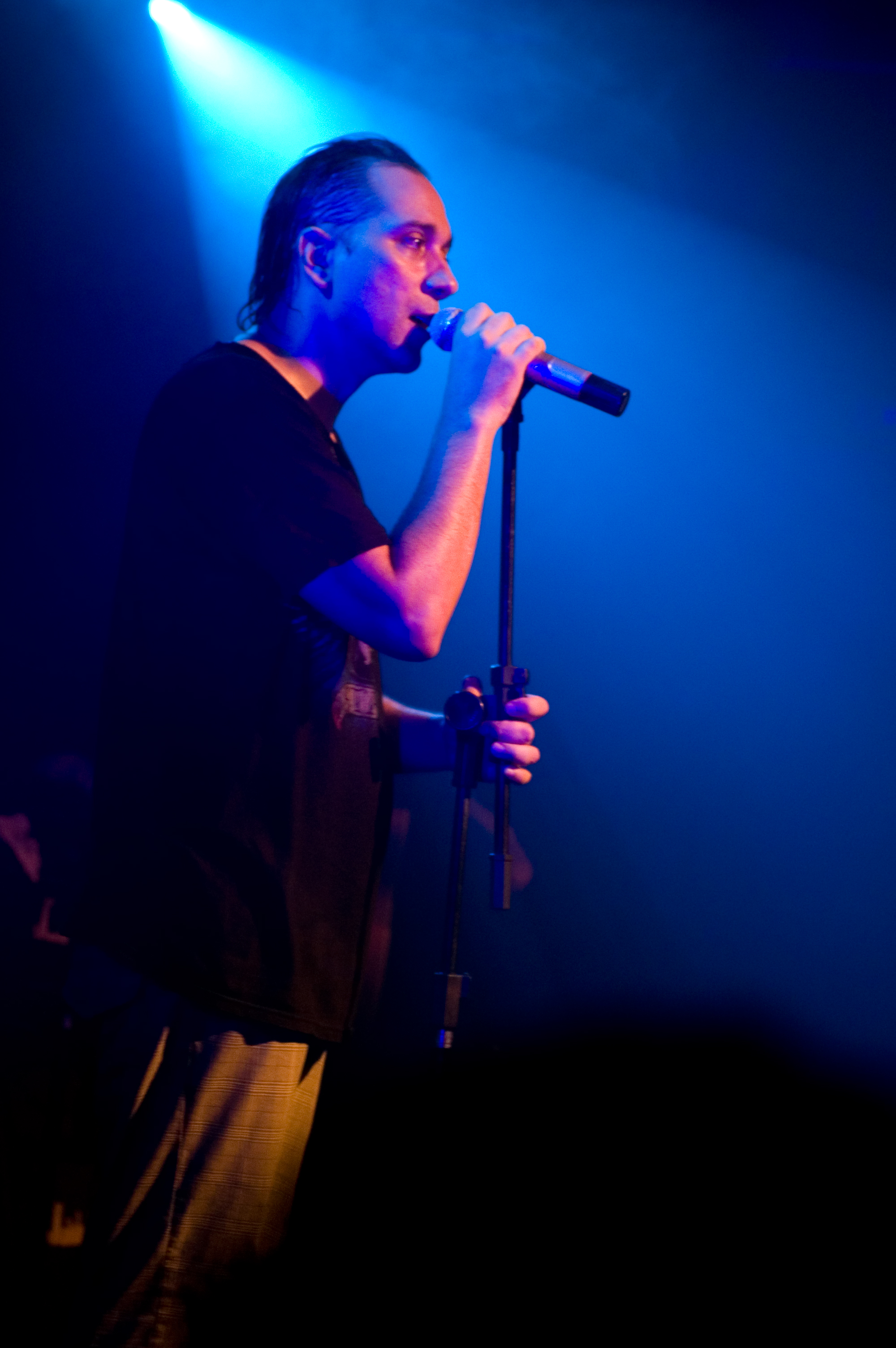 Biquini Cavadão is a Brazilian rock band formed in Rio de Janeiro in 1983. They are an influential 80s band that still continues successful to this day.